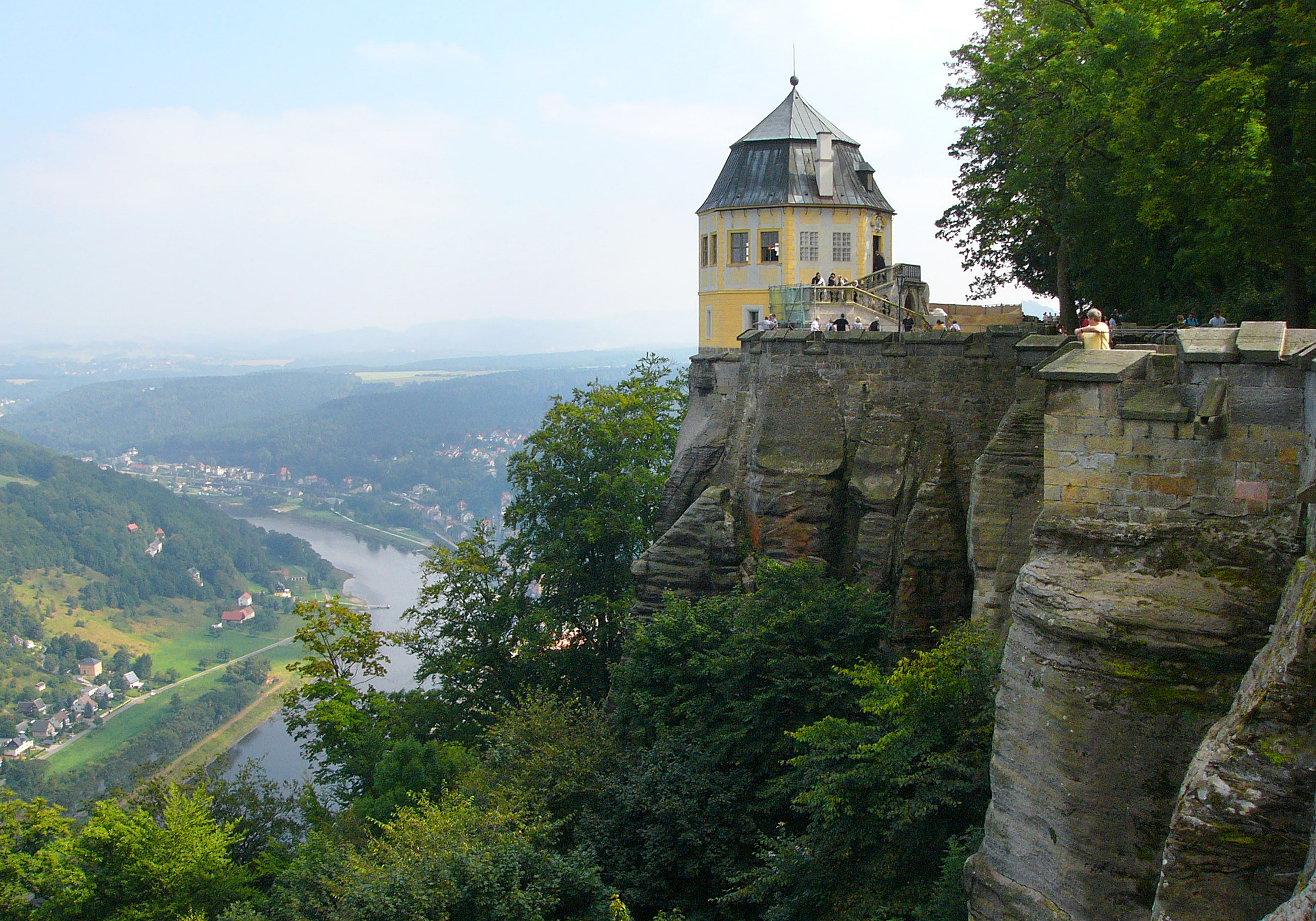 View to the Königstein Fortress in Saxon Switzerland, Saxony, Germany.